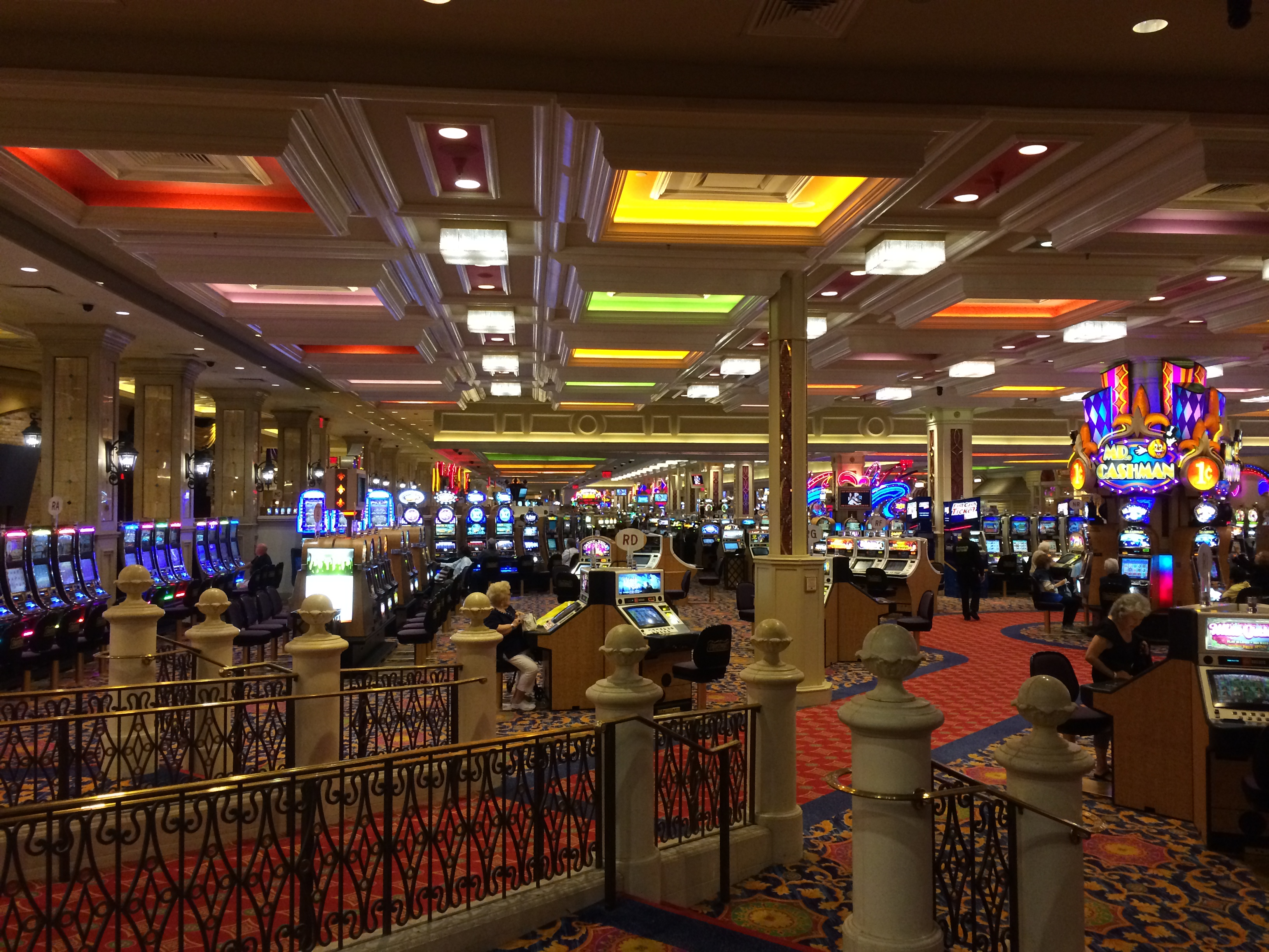 Gaming Floor of Showboat 2014